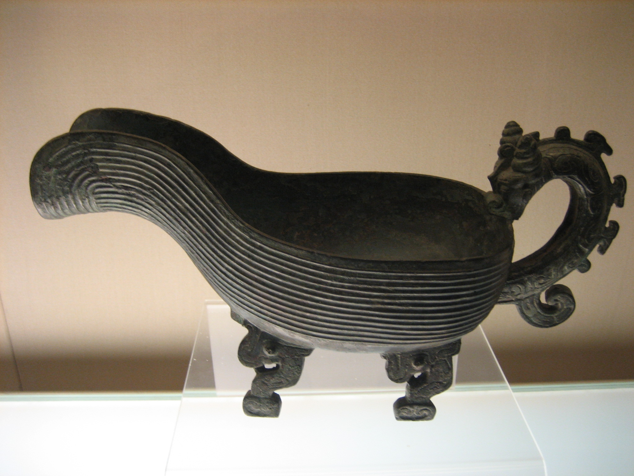 Yi of Marquis Qi.A Yi is an ancient ritual bronze vessel from China. It is believed that it was used to hold water for washing the hands before rituals like sacrifices. This Yi has the shape of half a gourd with a handle in the shape of a dragon, and an oval base. It is supported by four legs decorated with taotie (animal mask designs). The bottom shows 22 chinese characters written in 4 lines, stating that "the Marquis of Qi cast this Yi for his wife Mengji Liangnii, the princess of the State of Guo". It is from the late Western Zhou Dynasty (-1046 to -771), and is part of the collections of the Shanghai Museum. Height: 24.7cm Length: 48.1cm Weight: 6.42 kg